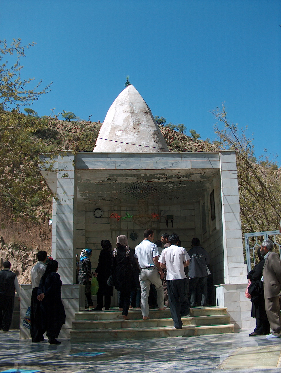 Holy tomb of Baba-Yadegar in Zarde village in one of sacred shrines of Yaresan(Ahl-i Haq) Religion.